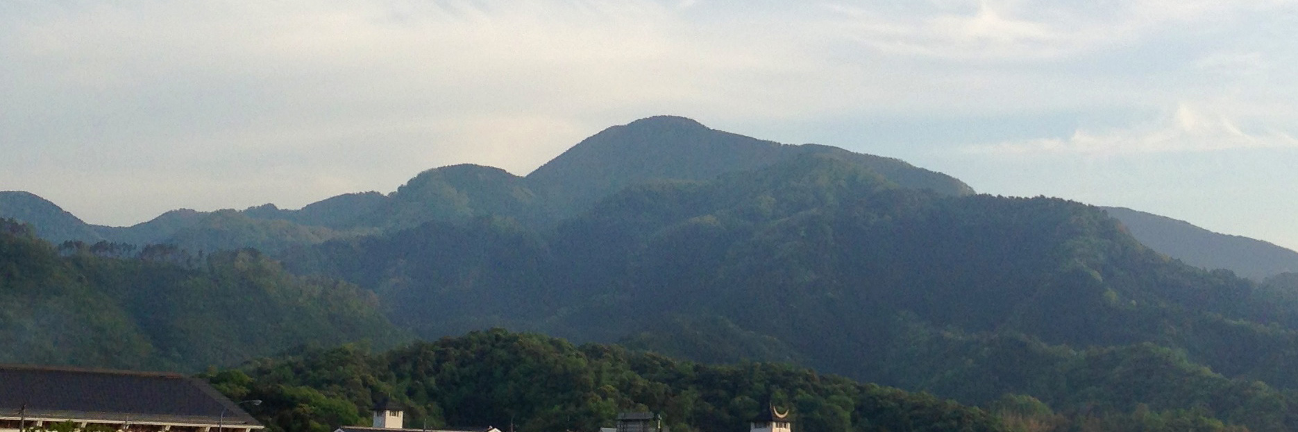 Jubozan (Mount Jubo) seen from the NNE.